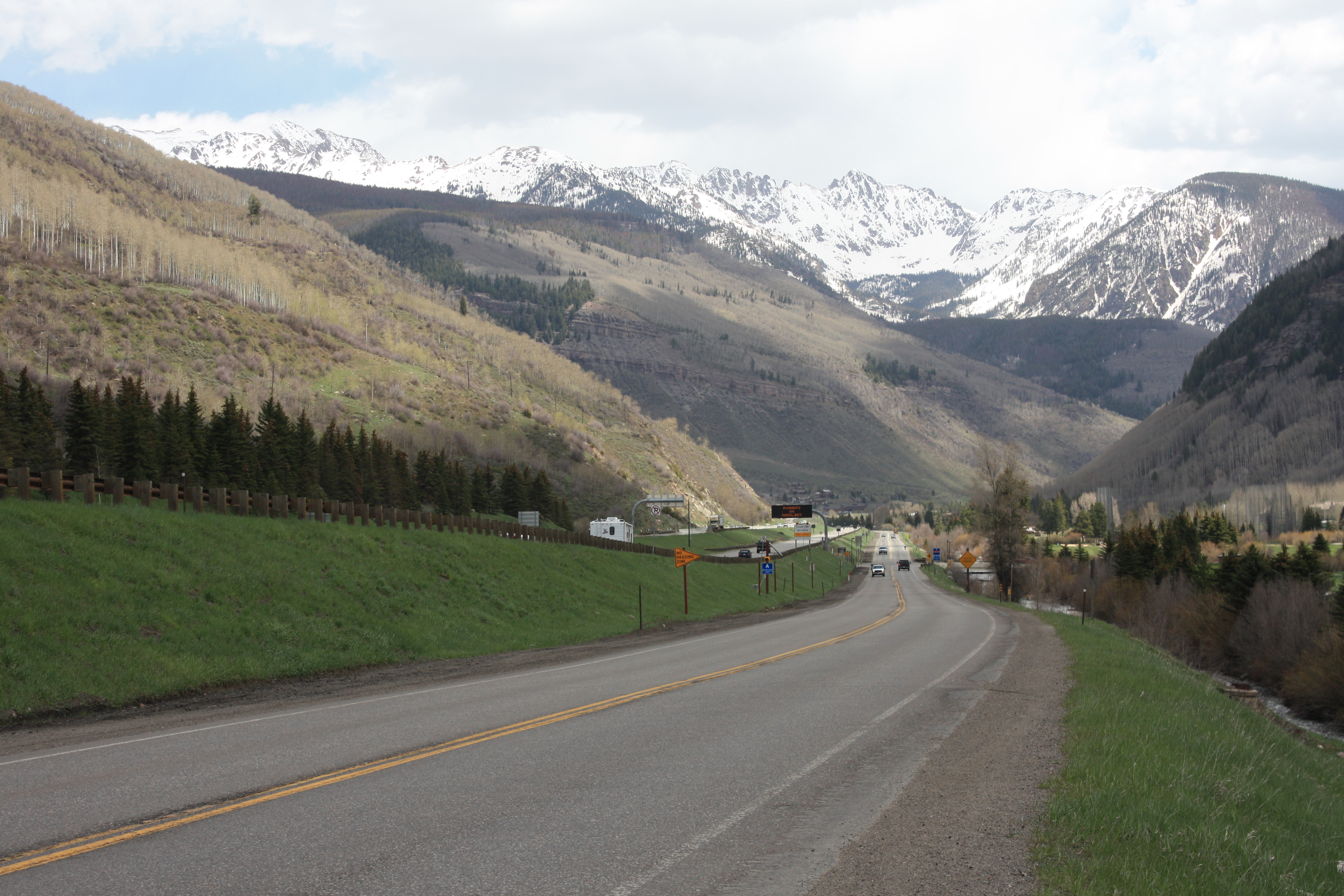 The Gore Range from Vail.